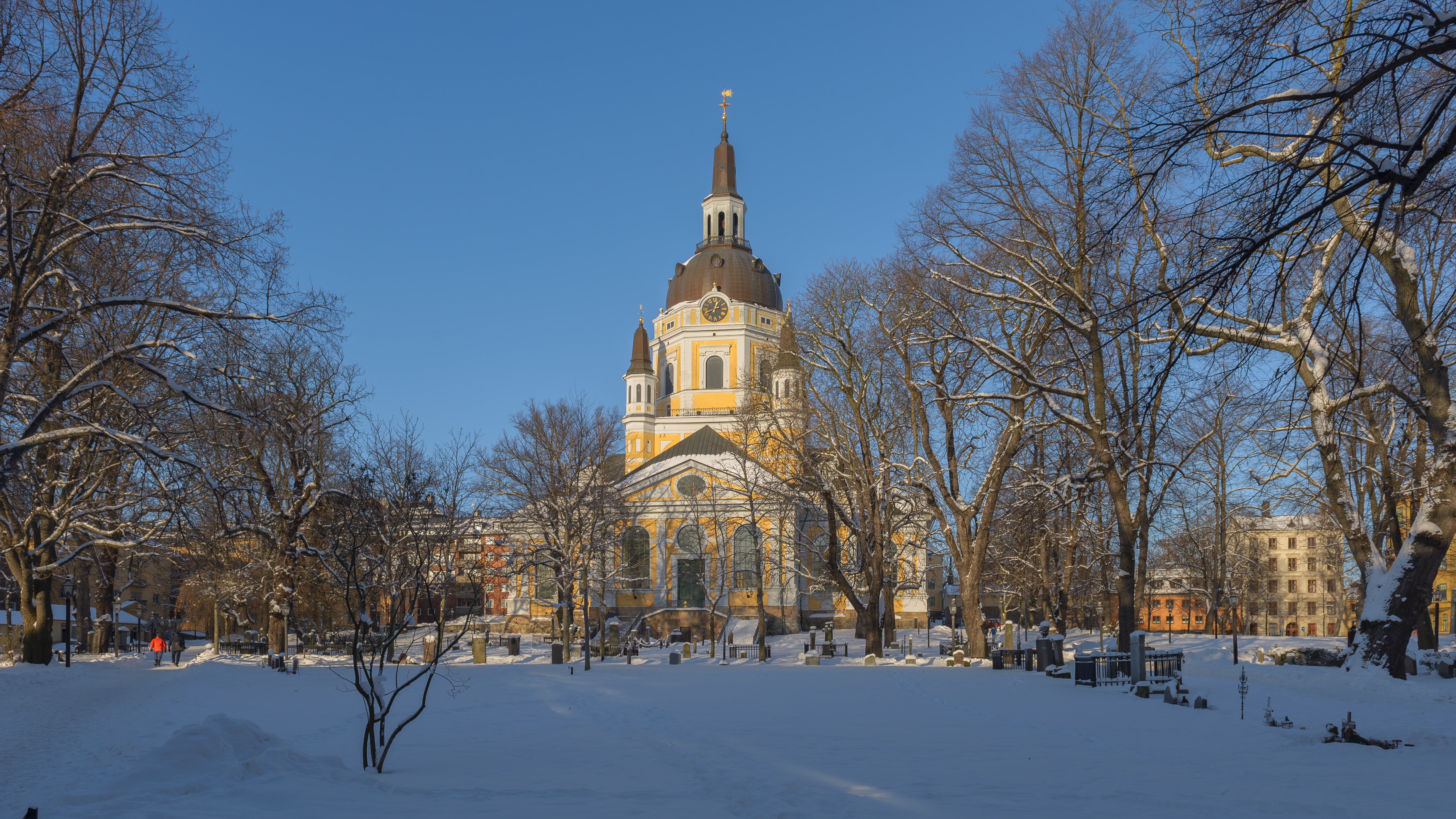 Katarina kyrka (church) and cemetery. Södermalm, Stockholm. Katarina parish, Diocese of Stockholm, Church of Sweden.